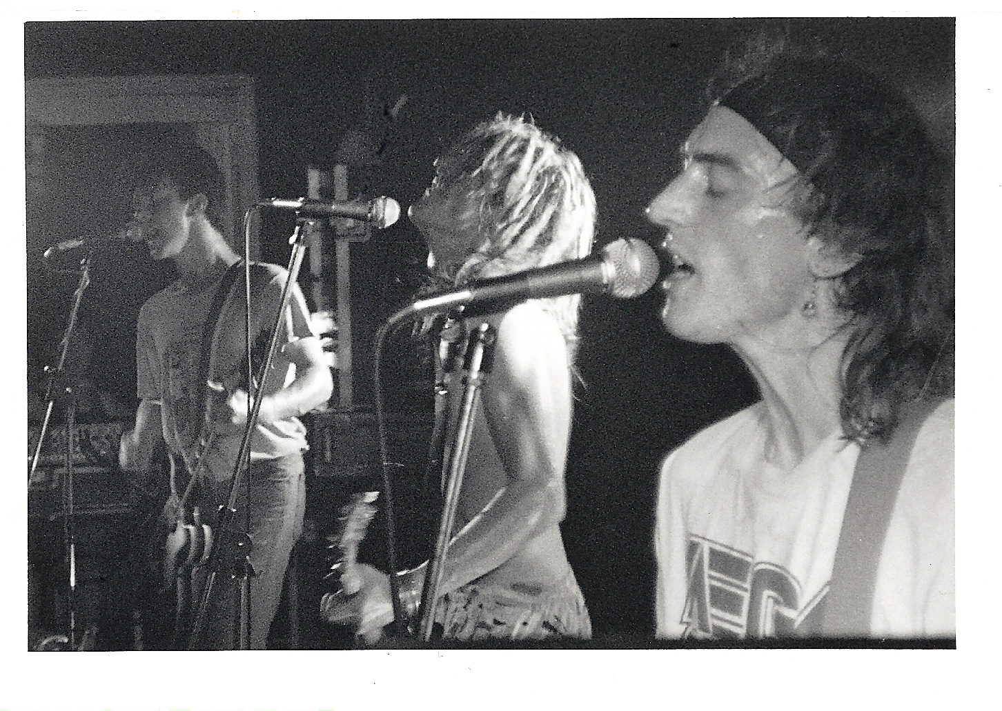 Mega City Four. Ihe Venue, Oxford 1990 Oxford Gig photos 1989-90. Includes Ride, Carter, the Shamen, Mega City Four Neate photos facebook page. More neate photos.